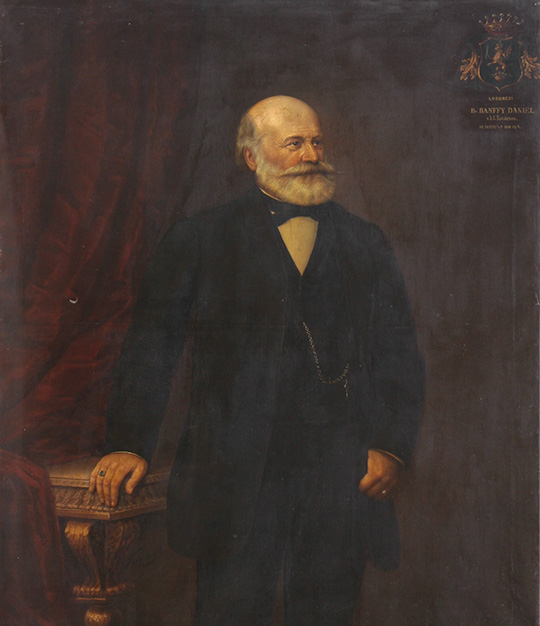 báró Daniel Bánffy, father of Dezső Bánffy.